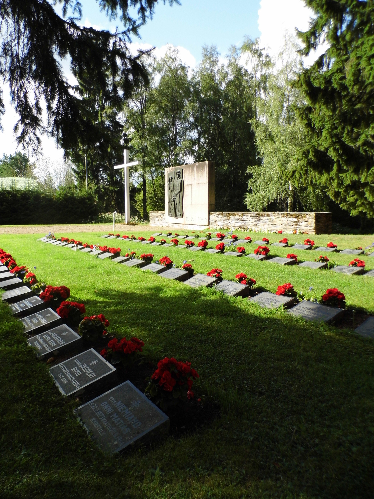 Military cemetary at church in Karstula, Finland